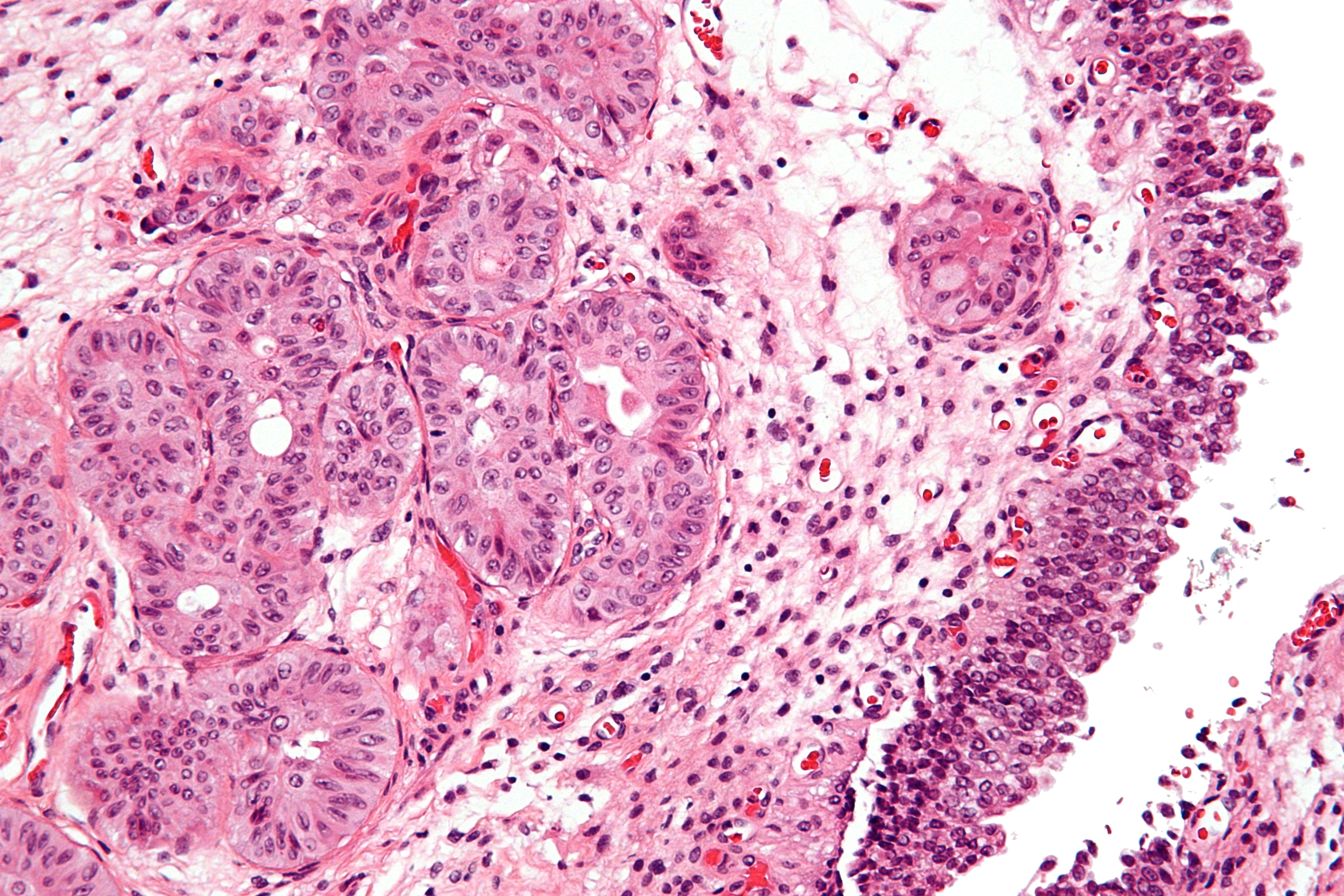 High magnification micrograph of nested variant of urothelial carcinoma, also nested urothelial carcinoma and nested variant of urothelial cell carcinoma. H&E stain. Related images Intermed. mag. High mag. Very high mag.